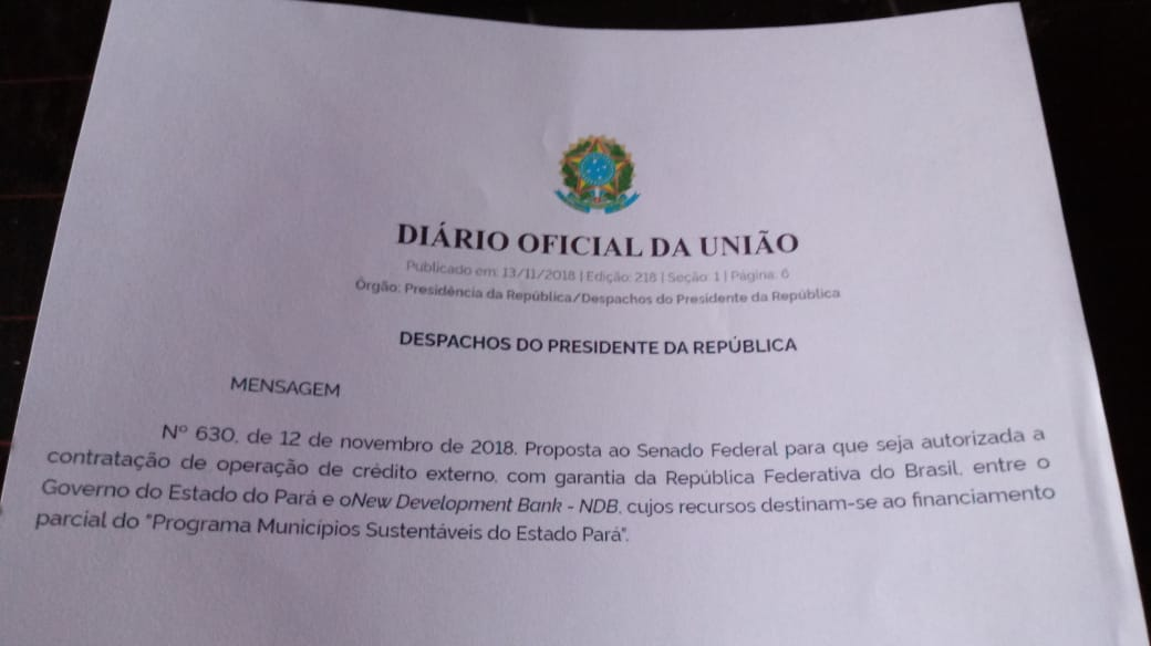 New Development Bank, Brazil presidential order.